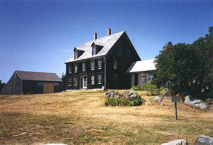 The Olson House, owned by the Farnsworth Art Museum and located in Cushing